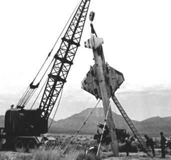 X-7 Recovery